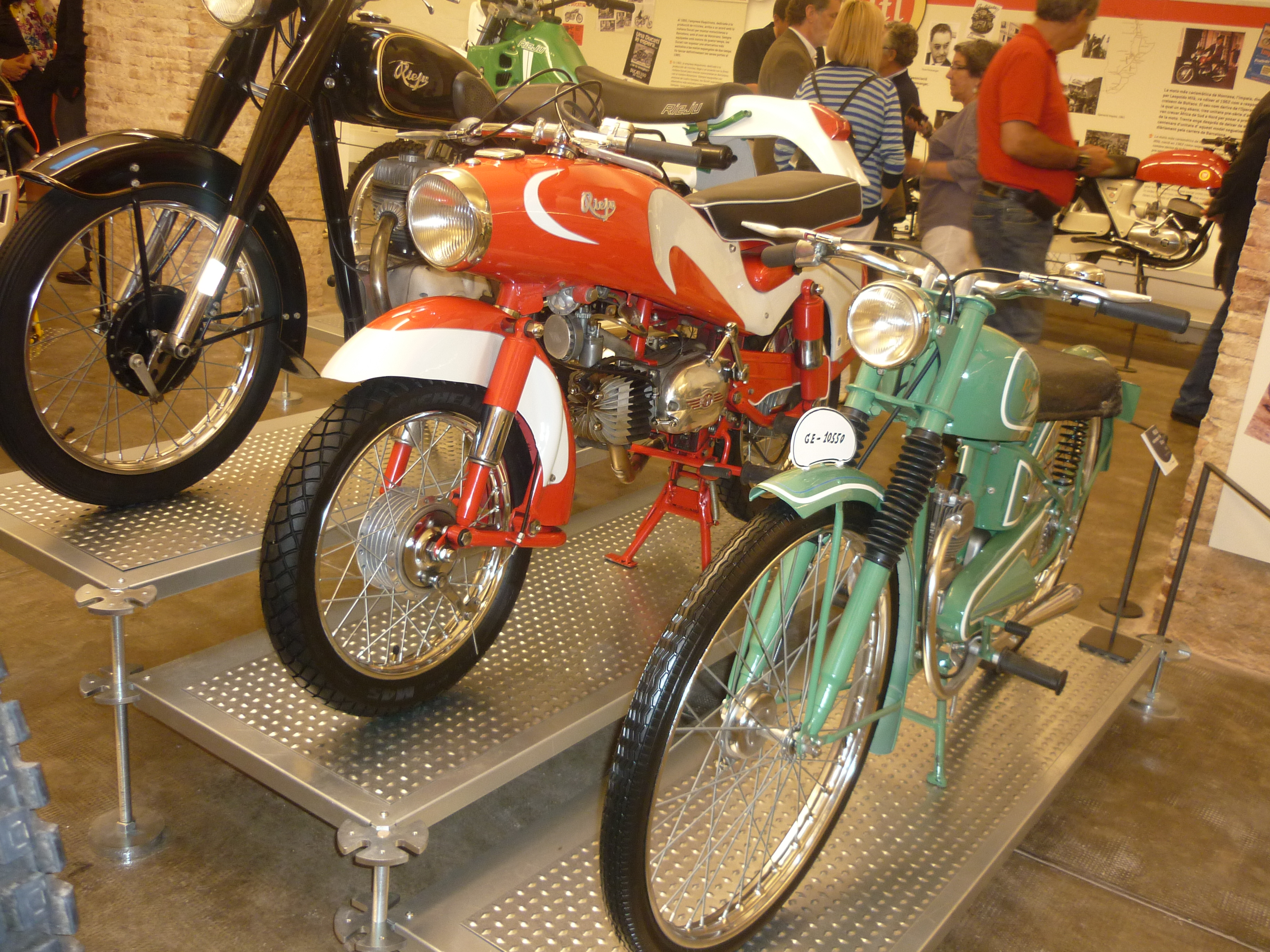 Rieju 125 Thaon Sport 125cc (1958), between a Rieju 175 and a Velomotor N3. Museu de la Moto de Barcelona (Catalonia).